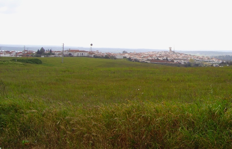 View of Torrão, from the Ermida (church); Torrão, Alcácer do Sal, Alentejo, Portugal